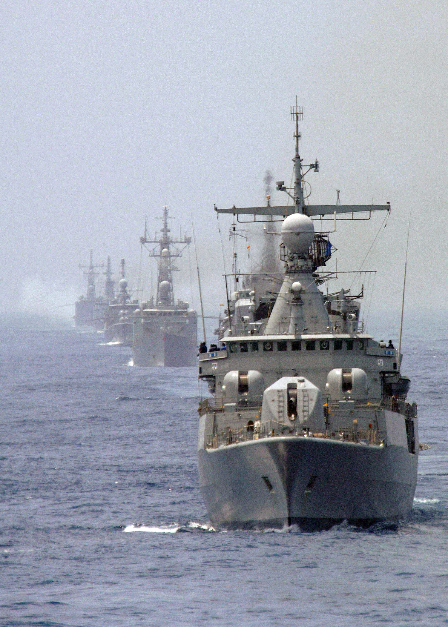 Atlantic Ocean (Oct. 26, 2005) - The Argentinean destroyer ARA Almirante Brown (D 10) leads in a formation during a “leapfrog” exercise off the coast of Brazil. Naval forces from Argentina, Brazil, Spain, Uruguay and the United States are participating in UNITAS 47-06 Atlantic phase. This is a U.S. Southern Command-sponsored exercise that enhances friendly, mutual cooperation and understanding between participating navies by enhancing interoperability in naval operations among the nations of the Western Hemisphere. U.S. Navy photo by Photographer’s Mate 2nd Class Michael Sandberg (RELEASED)